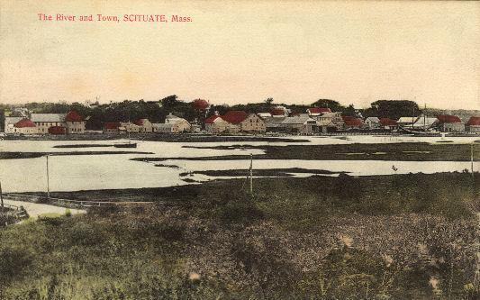 The River and Town, Scituate, MA; from a c. 1910 postcard.